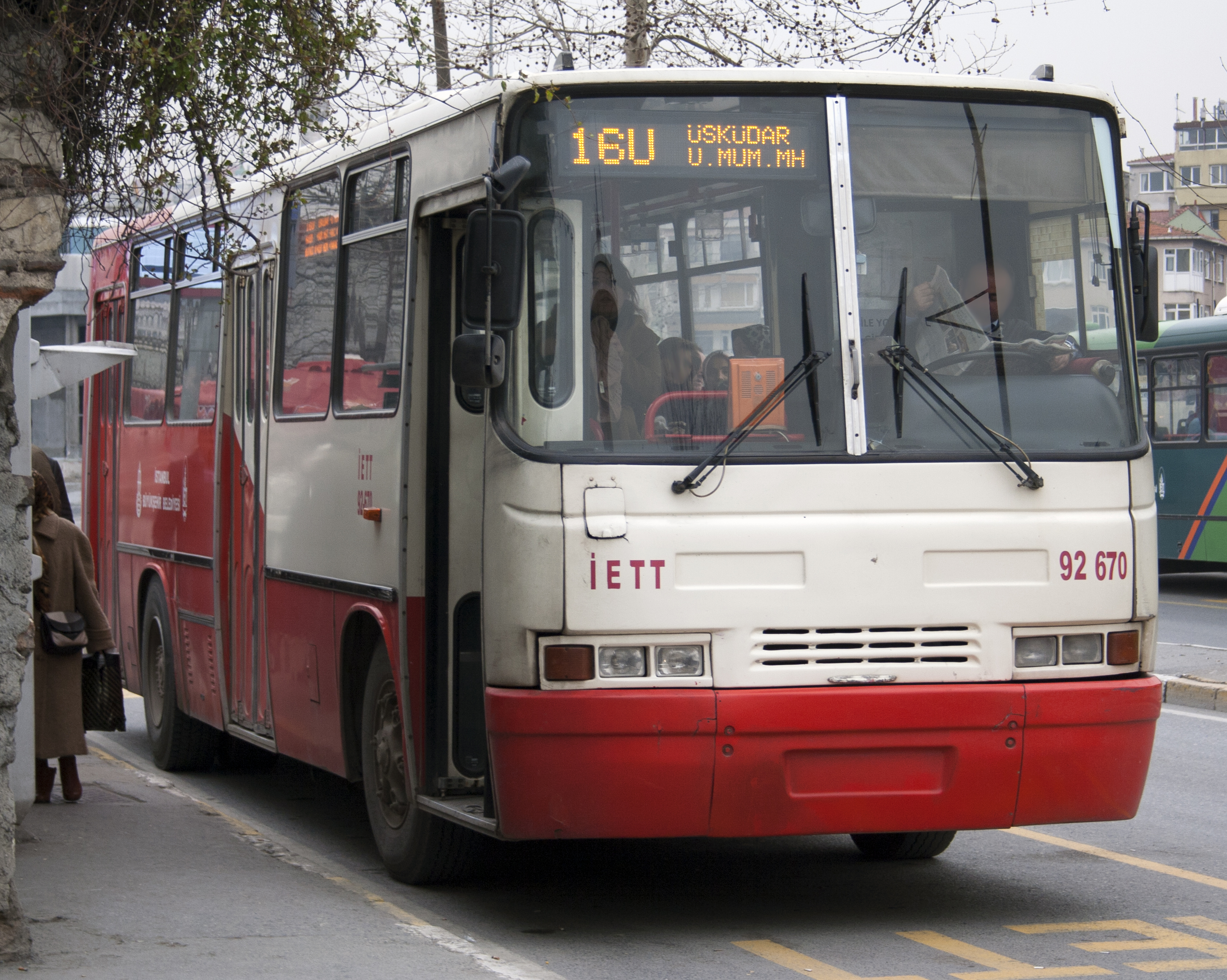 Ikarus 260 city bus in Üsküdar, Istanbul. Operated by İETT and in service since 1992.